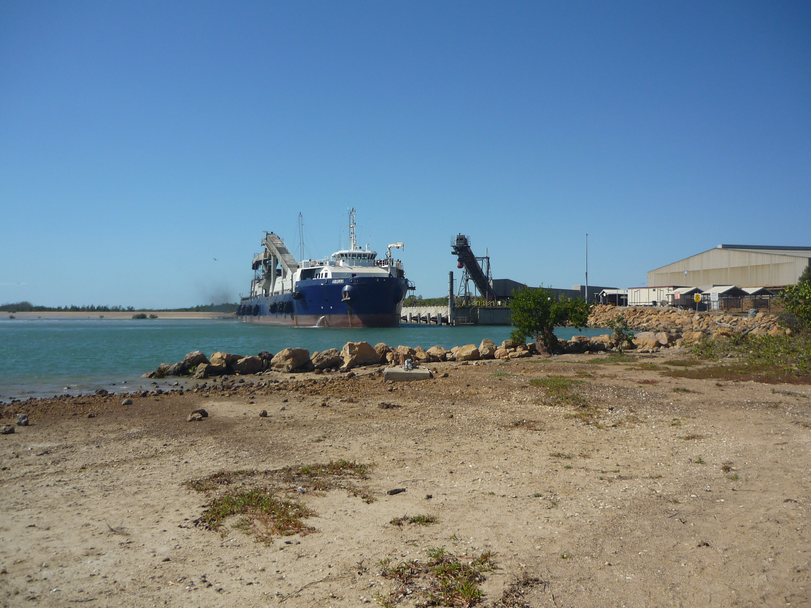 MV Aburri at the Bing Bong Loading Facility, associated with the McArthur River zinc mine, Gulf of Carpentaria, Northern Territory.